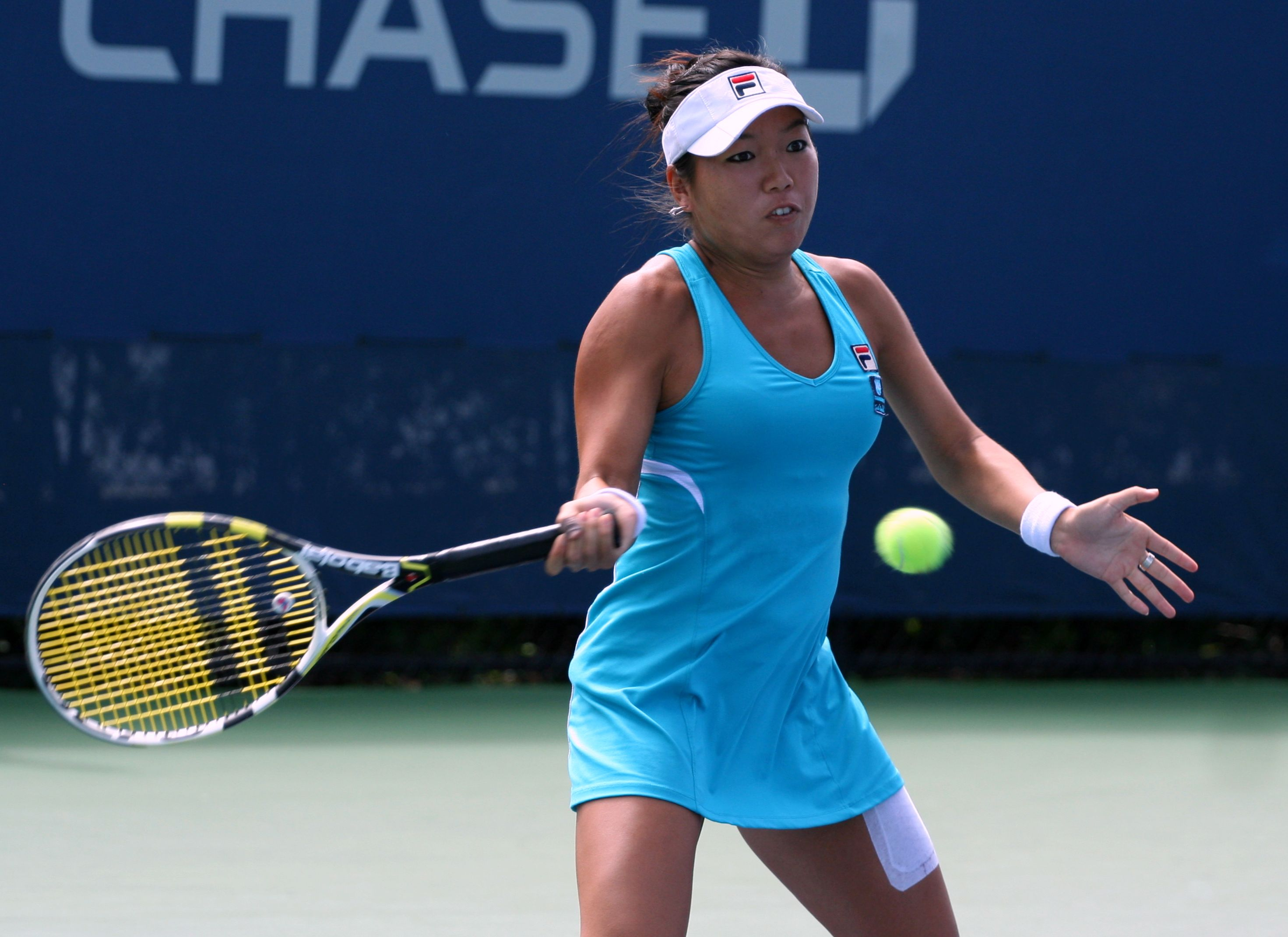 U.S. Open Thursday, Sept. 8, 2011